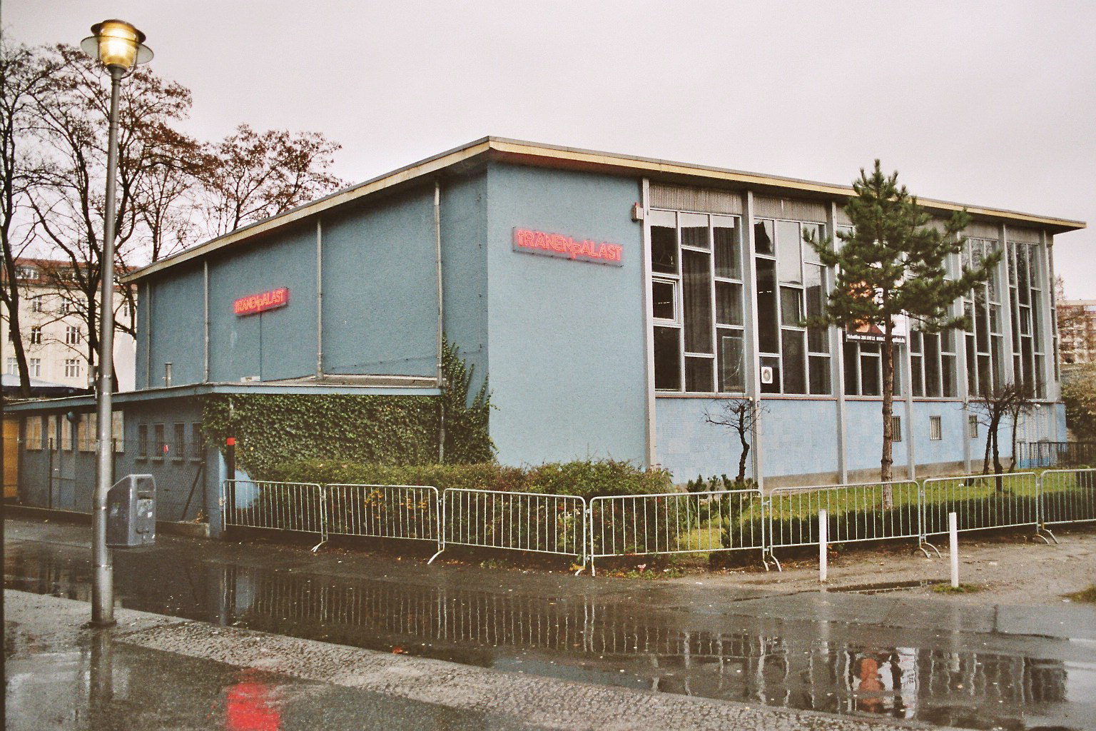 Part of the former frontier between West- and East-Berlin at Railwaystation “Friedrichstrasse”. "Tränenpalast" means "tears palace". After the revolution of 1989 and German reunification, the building was used as an event hall for concerts, parties, etc. In July 2006, the Palace of Tears was closed and then renovated. Here, the building was restored to the original state of 1962. Since September 2011, the former check-in hall of the border crossing point is used by the Bonn Haus der Geschichte der Bundesrepublik Deutschland as a branch office. With free entry there will be the permanent exhibition "GrenzErfahrungen. Everyday life of the German division" shown there.